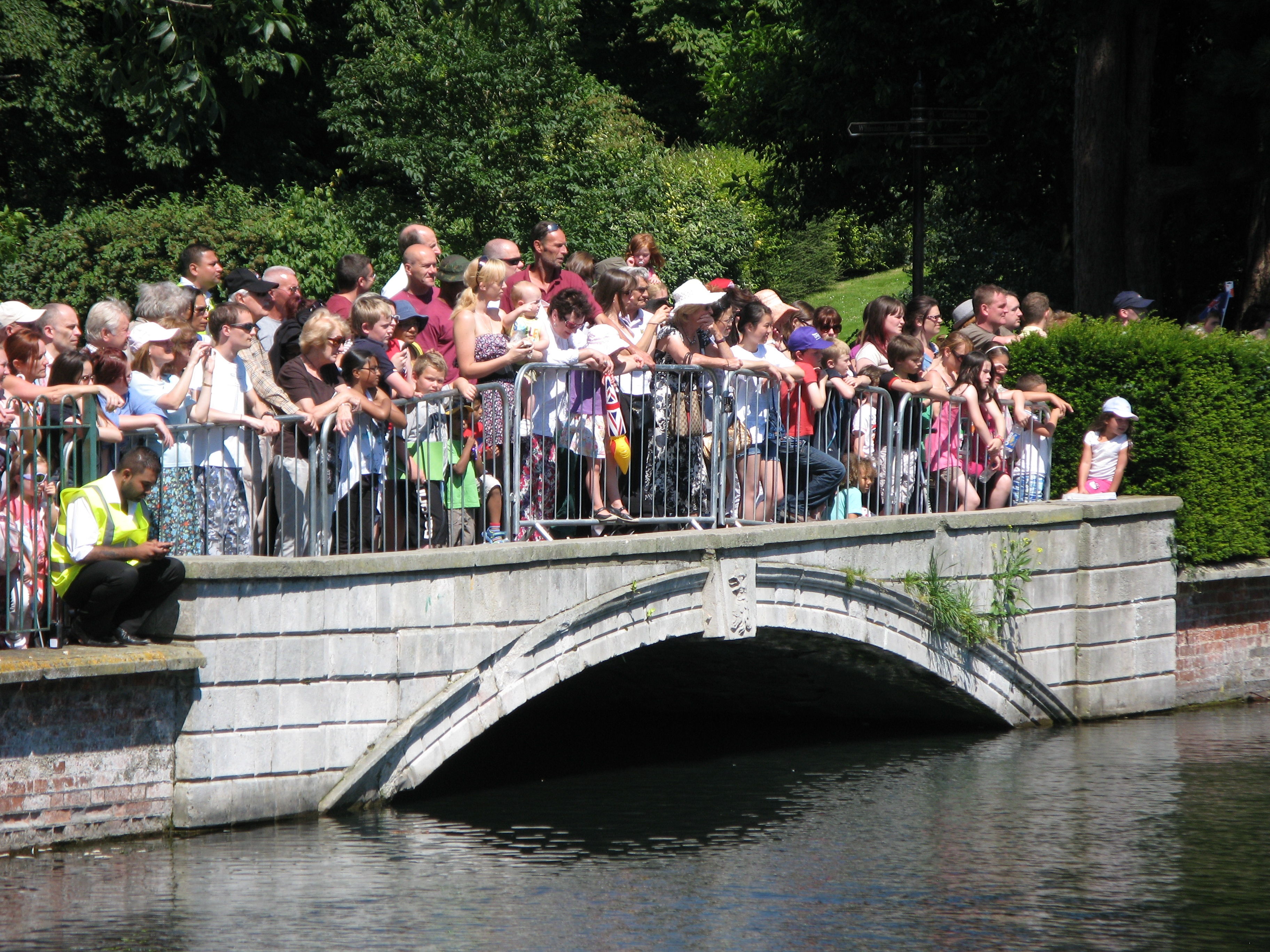 2012 London Olympics torch relay.